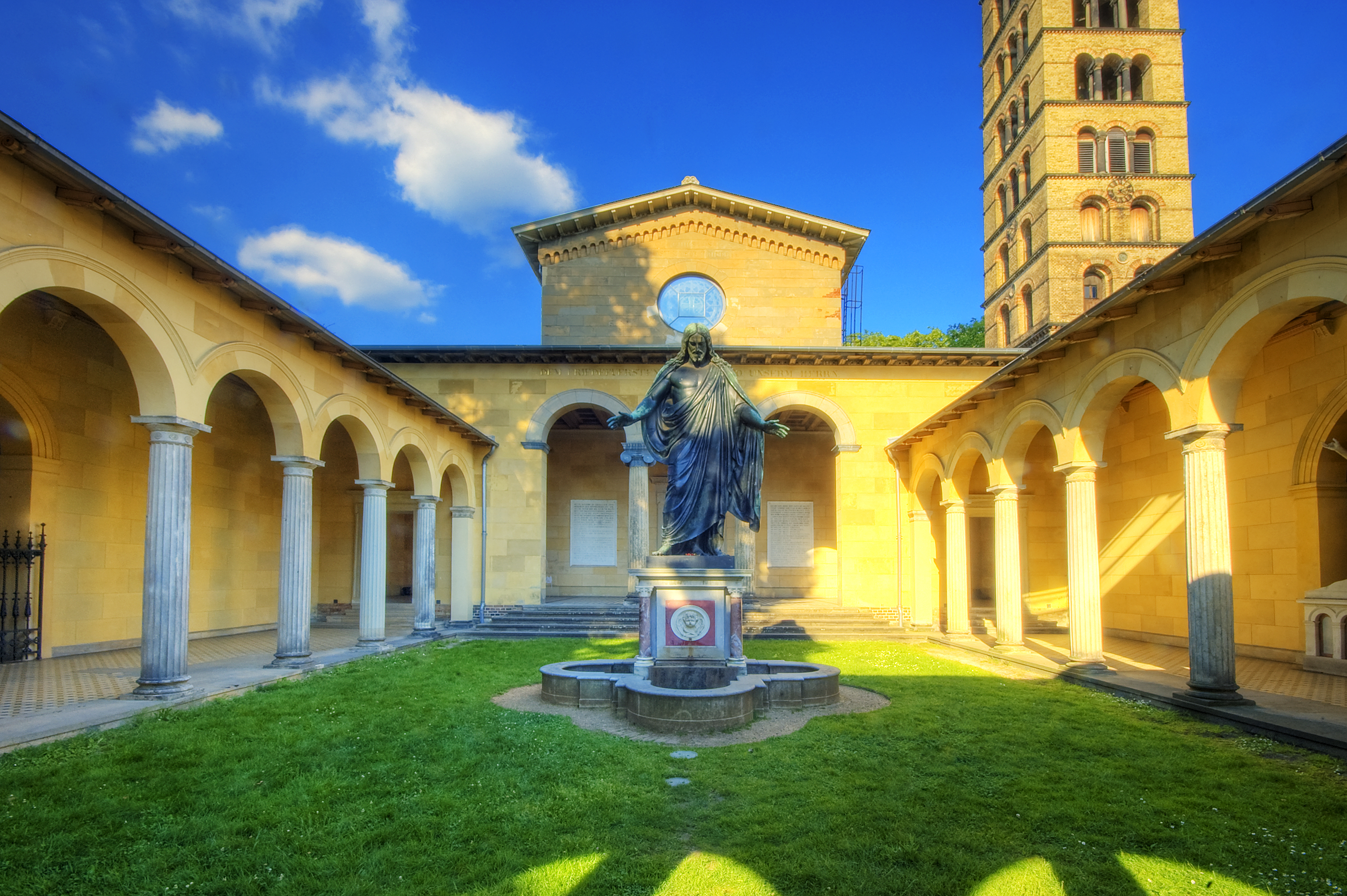 The Church of Peace (German: Friedenskirche) is situated in the Marly Gardens on the Green Fence in the palace grounds of Sanssouci Park in Potsdam